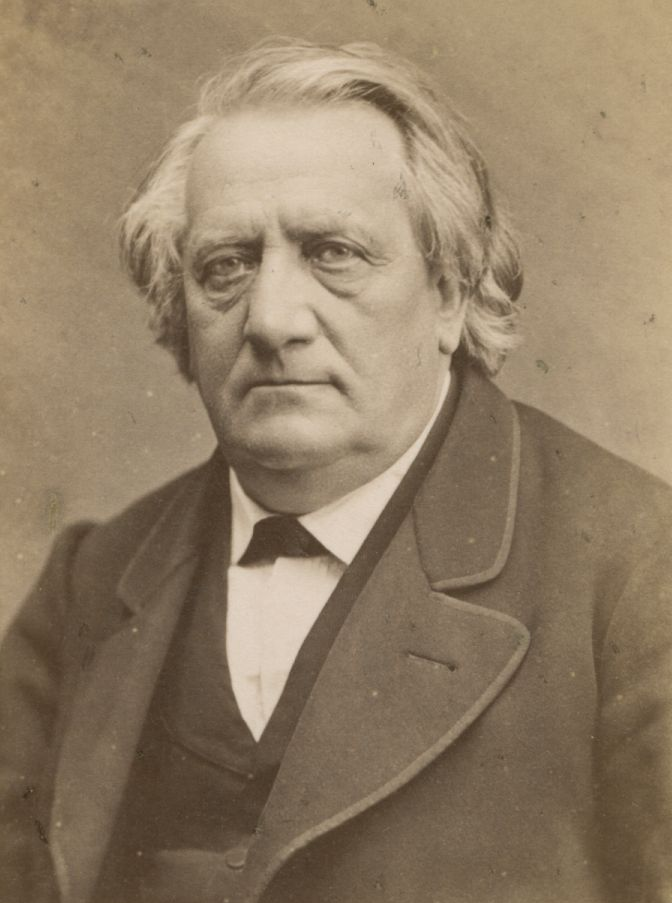 Artist: Fritz Luckhardt Date/place: Unknown/Vienna Subject: Franz Lachner Medium: Photographic posetiv Notes: German composer. Born in Rain am Lech 02.04. 18043 - dead 20.01. 1890 Original belongs to the Archives at [#//bergenbibliotek.no/digitale-samlinger” Bergen Public Library]